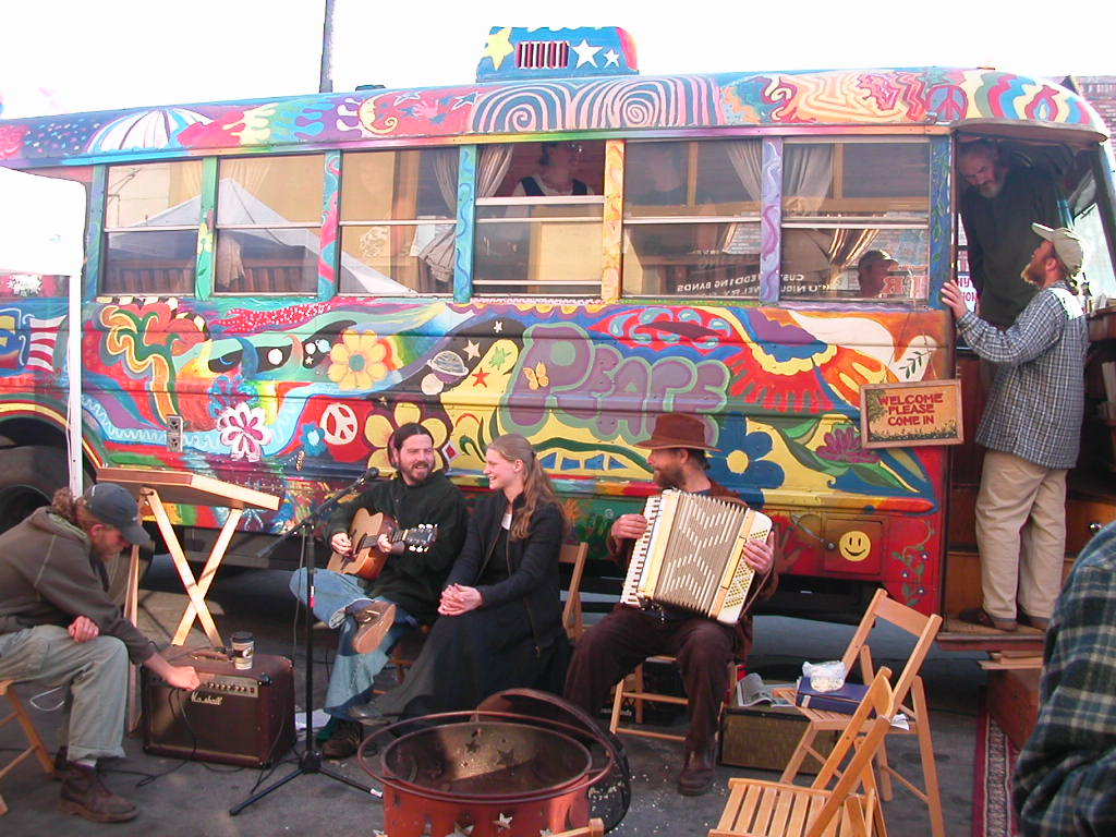 Twelve Tribes Bus at Ocean Beach Market